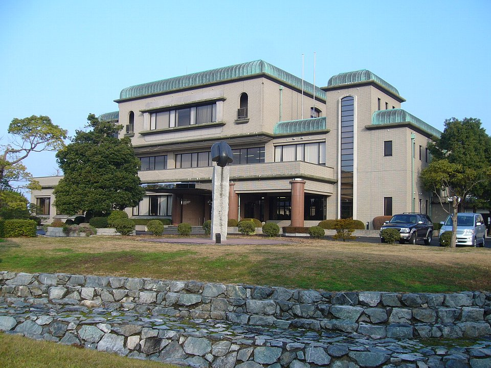 The city hall of Heizu